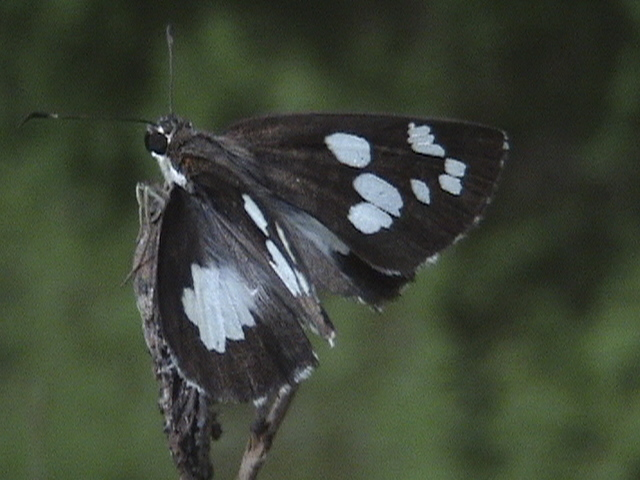 Grass demon (Udaspes folus) shot in my garden